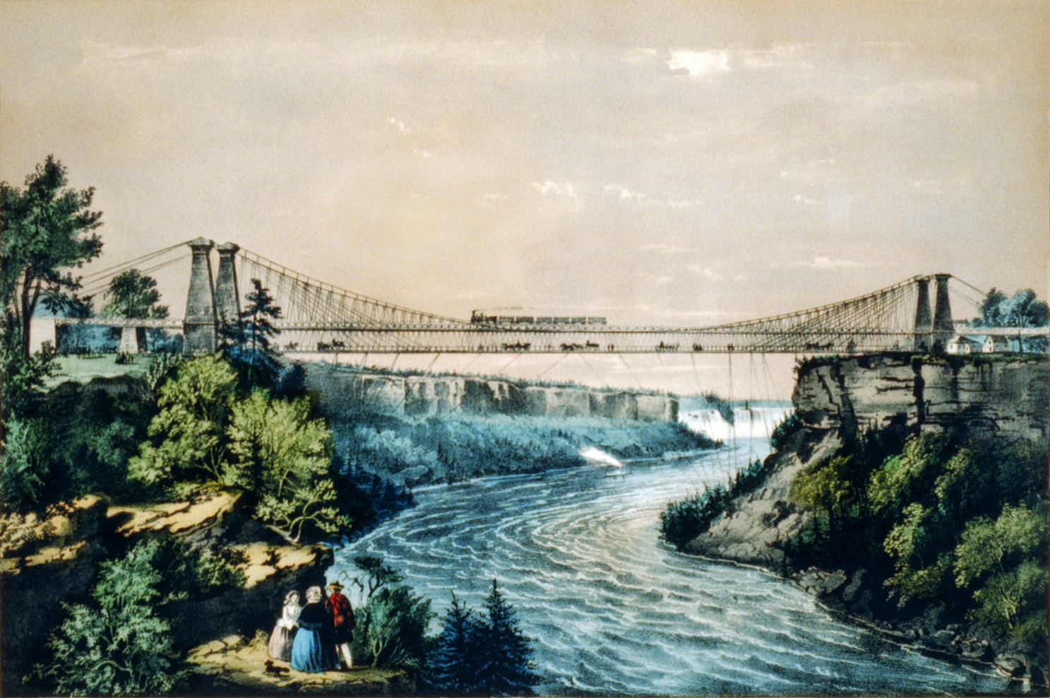 A hand-colored lithograph of the Niagara Suspension Bridge, showing the Niagara Falls in the background and the Maid of the Mist in the waters below. The architecture of the bridge is visible in this picture.